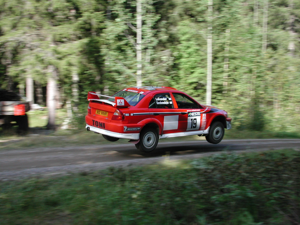 Toni Gardemeister driving his Mitsubishi Carisma GT (class A8) at the ninth round of 2001 World Rally Championship - Rally Finland.